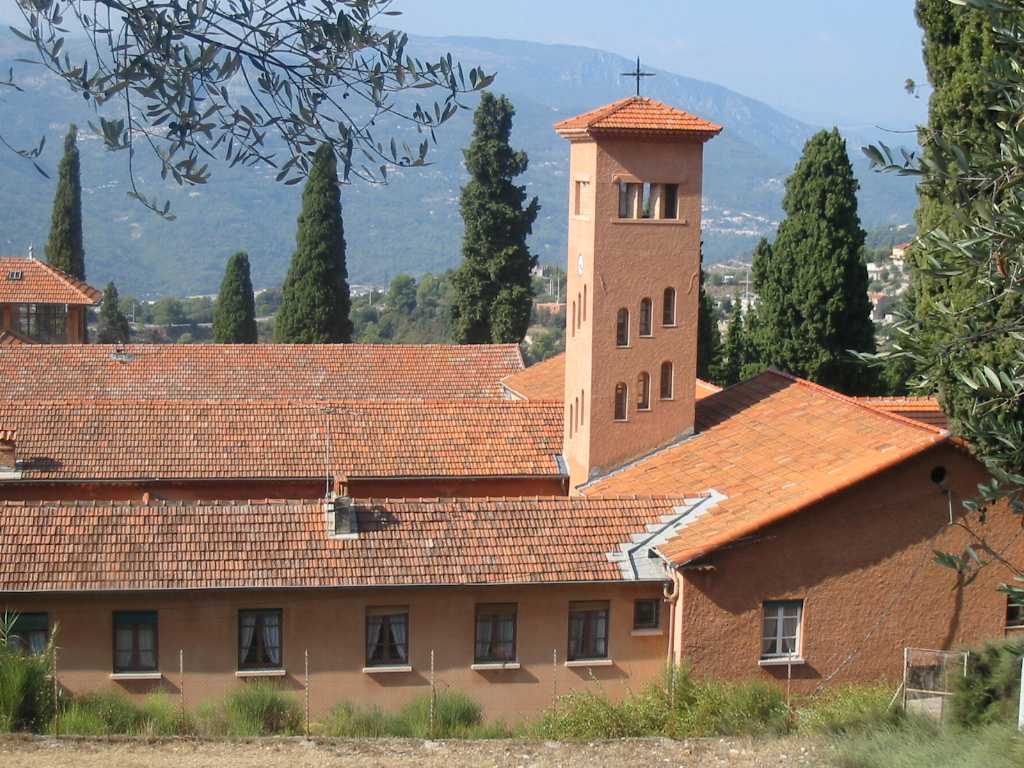 The Abbey, with its olive trees.